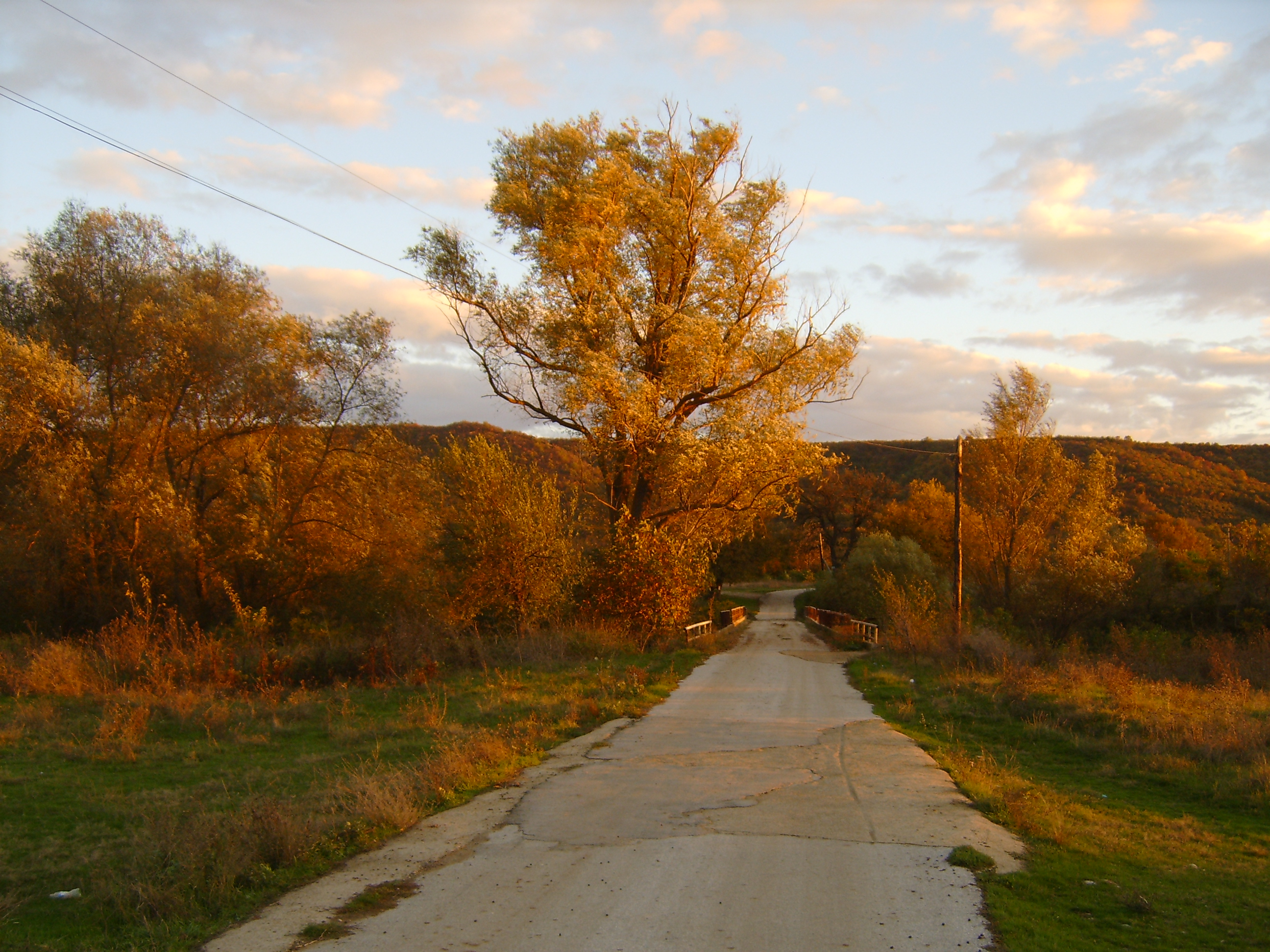 A picture from village Rositsa, Veliko Tarnovo District, Bulgaria